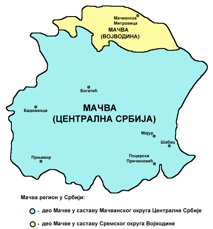 map of Mačva region in Serbia - Serbian language map version. Serbian: mapa regiona Mačva u Srbiji - verzija mape na srpskom jeziku.